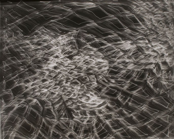 Camera-lass photograph by Maureen McQuillan